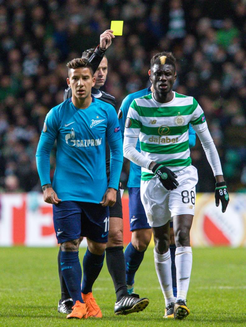 16.02.2018. Великобритания, Глазго, «Селтик Парк». Лига Европы УЕФА 2017/18, «Селтик» — «Зенит».